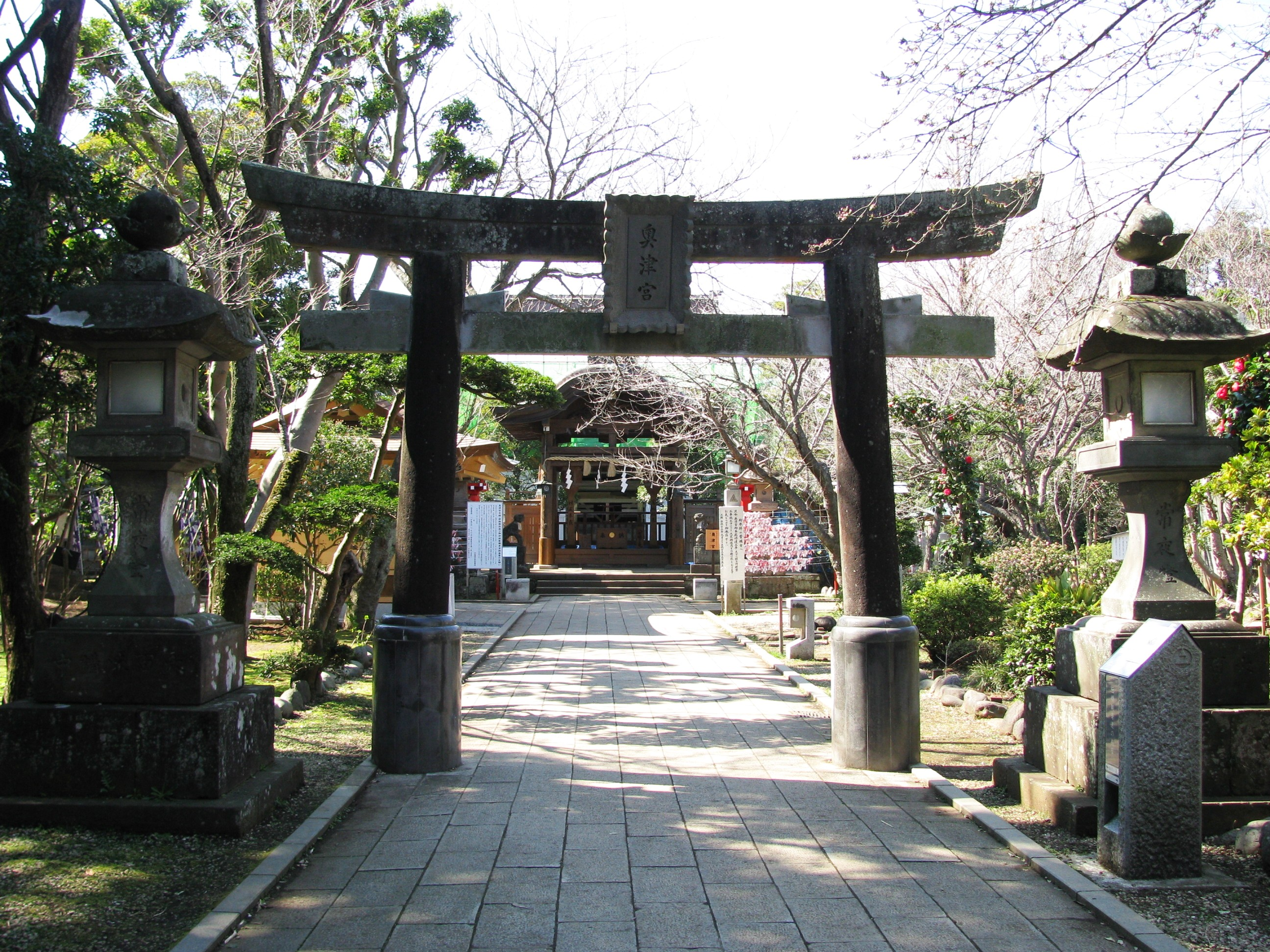 The Okutsu-miya of Enoshima Shrine. This place is Enoshima in Fujisawa, Kanagawa Prefecture, Japan.